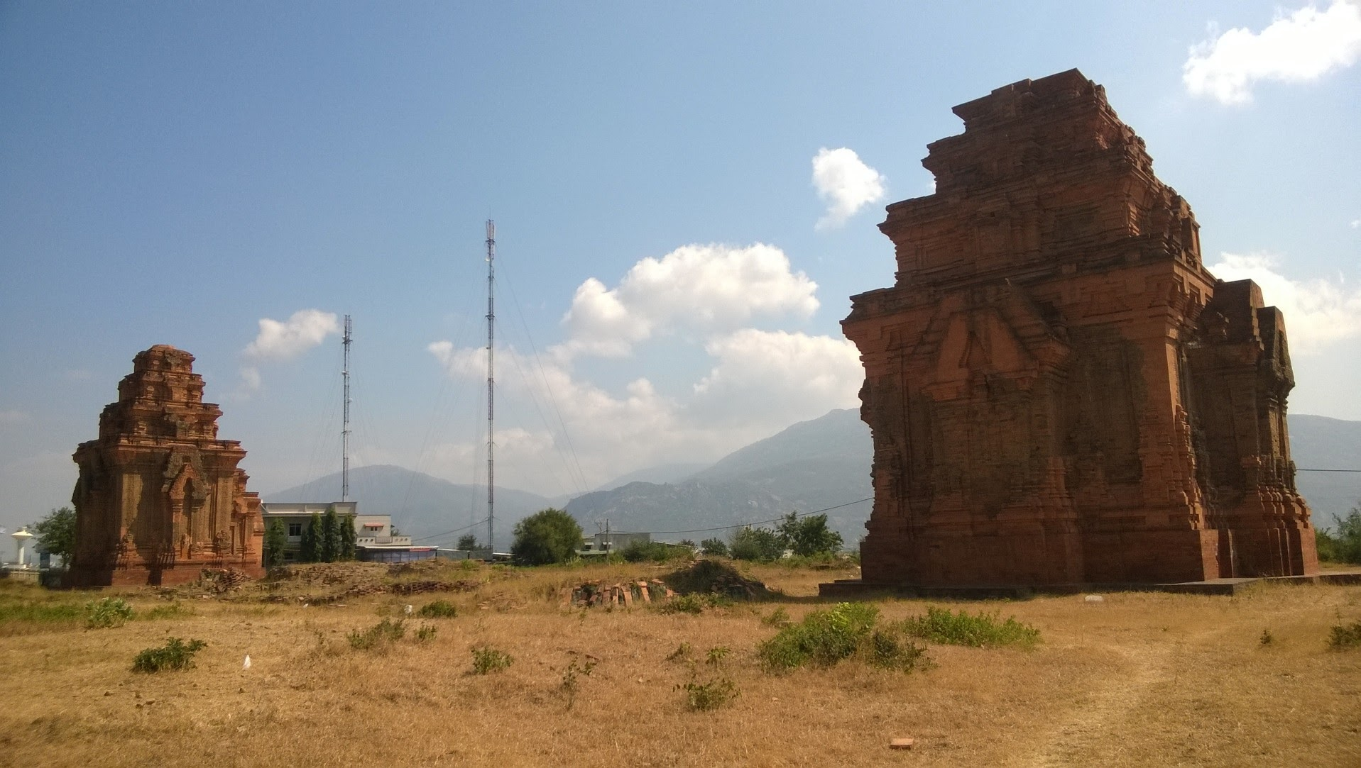 Ba Thap Historic Museum